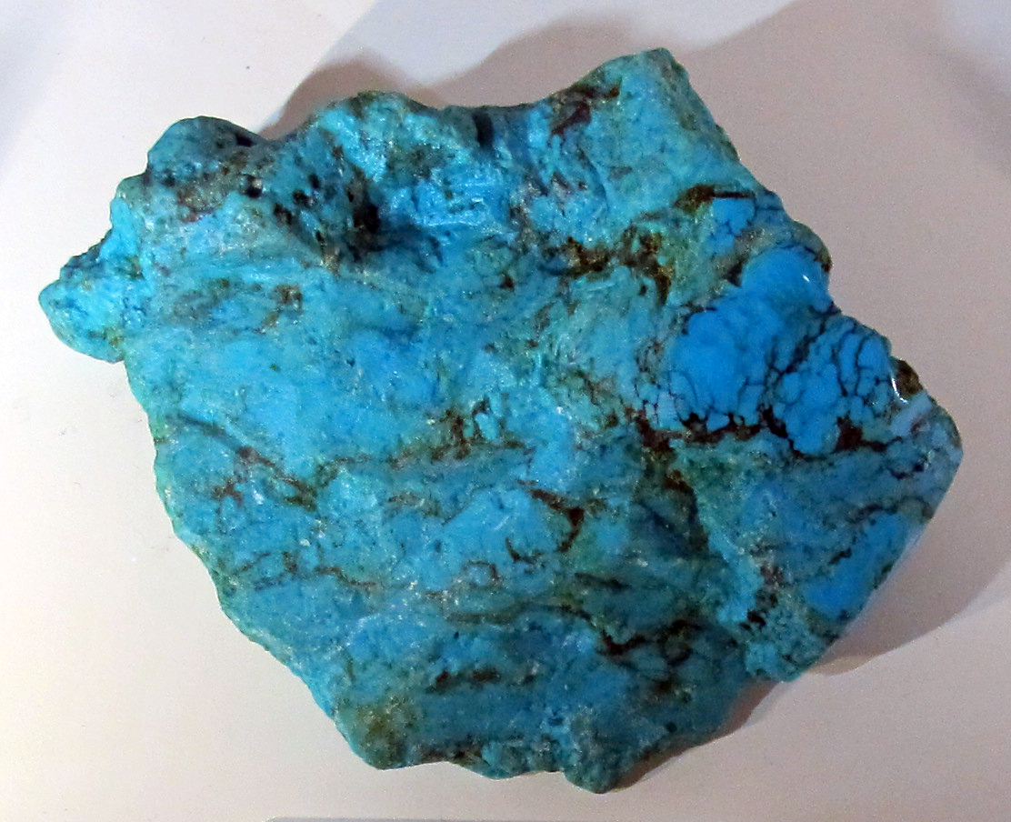 Museo di storia naturale (Florence) - Mineralogy section